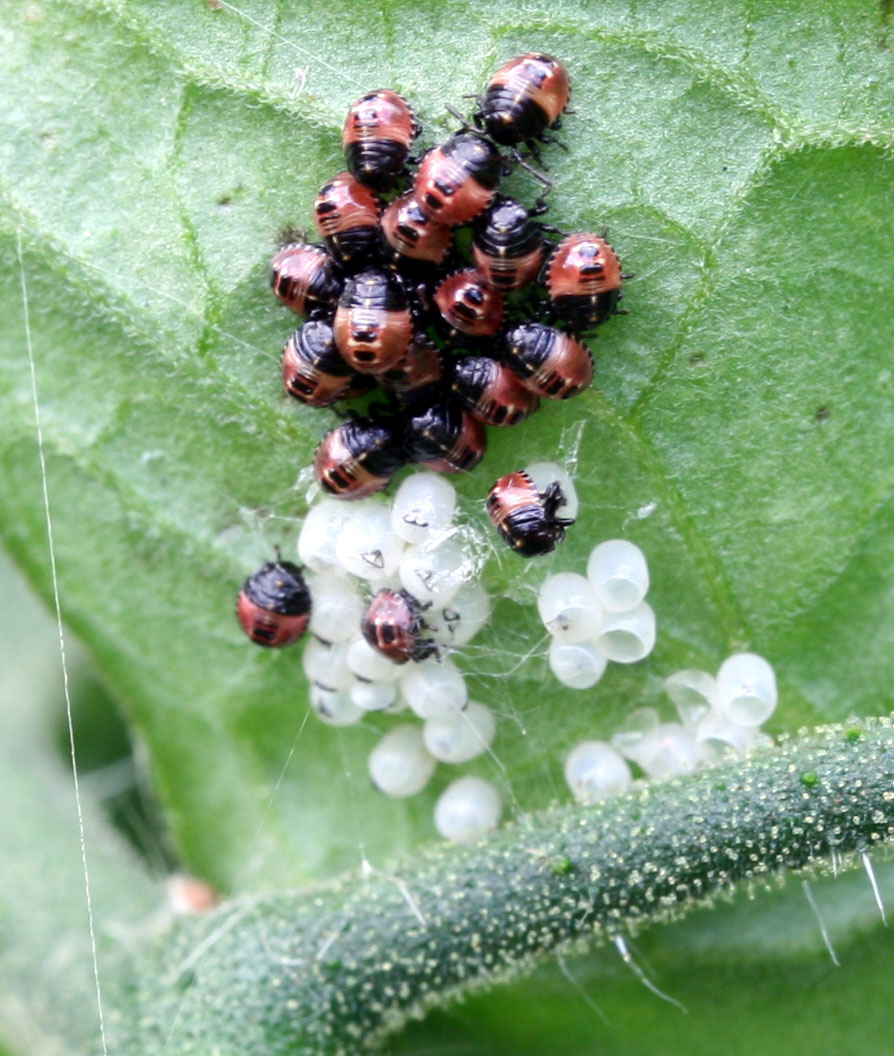 newly emerged shield bugs (Dolycoris baccarum?) with egg cases, on a tomato leaf. Each juvenile bug is 2-3mm long